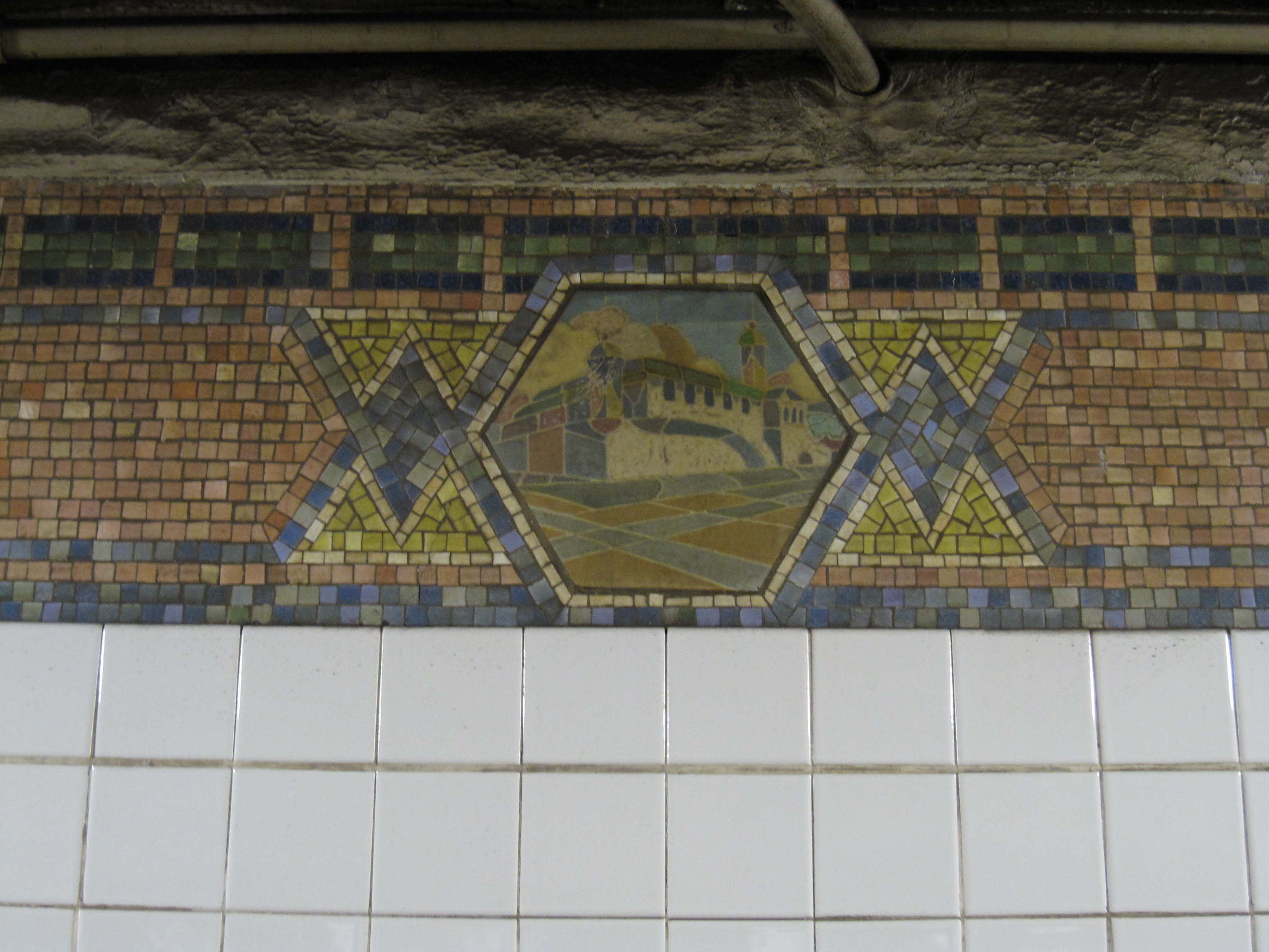 Christopher Street – Sheridan Square (IRT Broadway – Seventh Avenue Line)